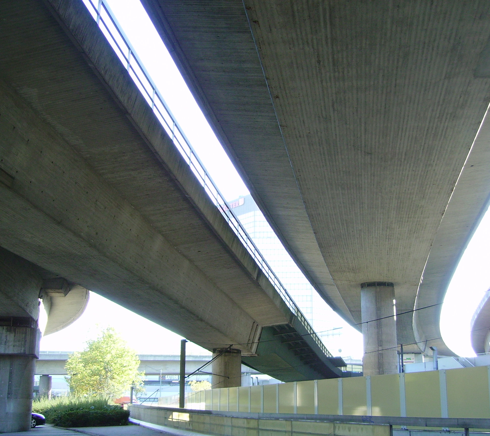 Ludwigshafen in Rhineland-Palatinate (Germany)